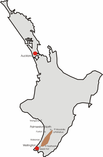 Map of North Island New Zealand, Tararua Range